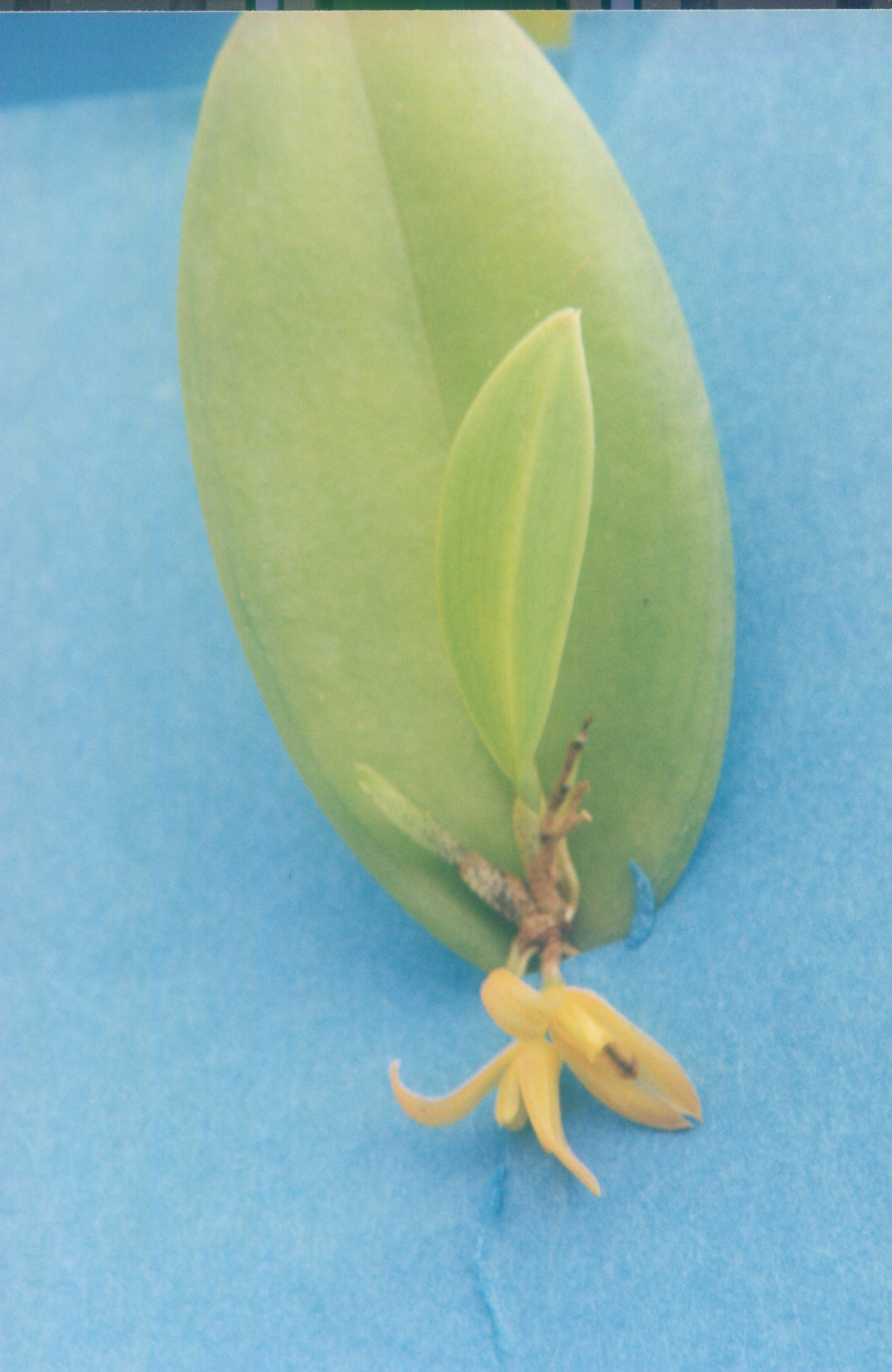 Acianthera luteola